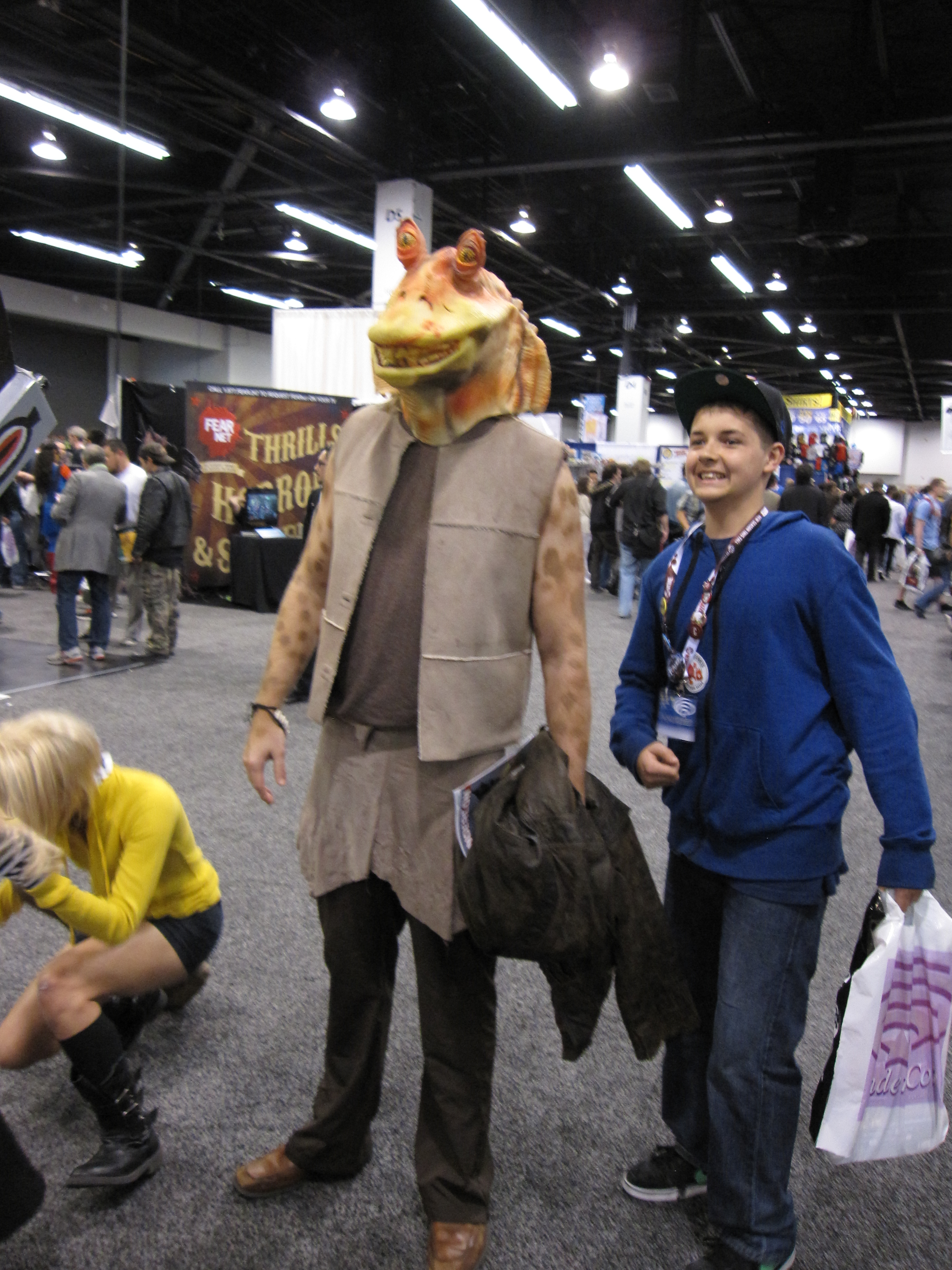 WonderCon, a comic/anime convention held every March in San Francisco, had to relocate to Anaheim for 2012, due to San Francisco's Moscone Center being closed for renovations. Anaheim Convention Center was very poorly prepared for the logistics, I must say, but all the great cosplay more than made up for the shortcomings. Jar Jar Binks from Star Wars: The Phantom Menace.